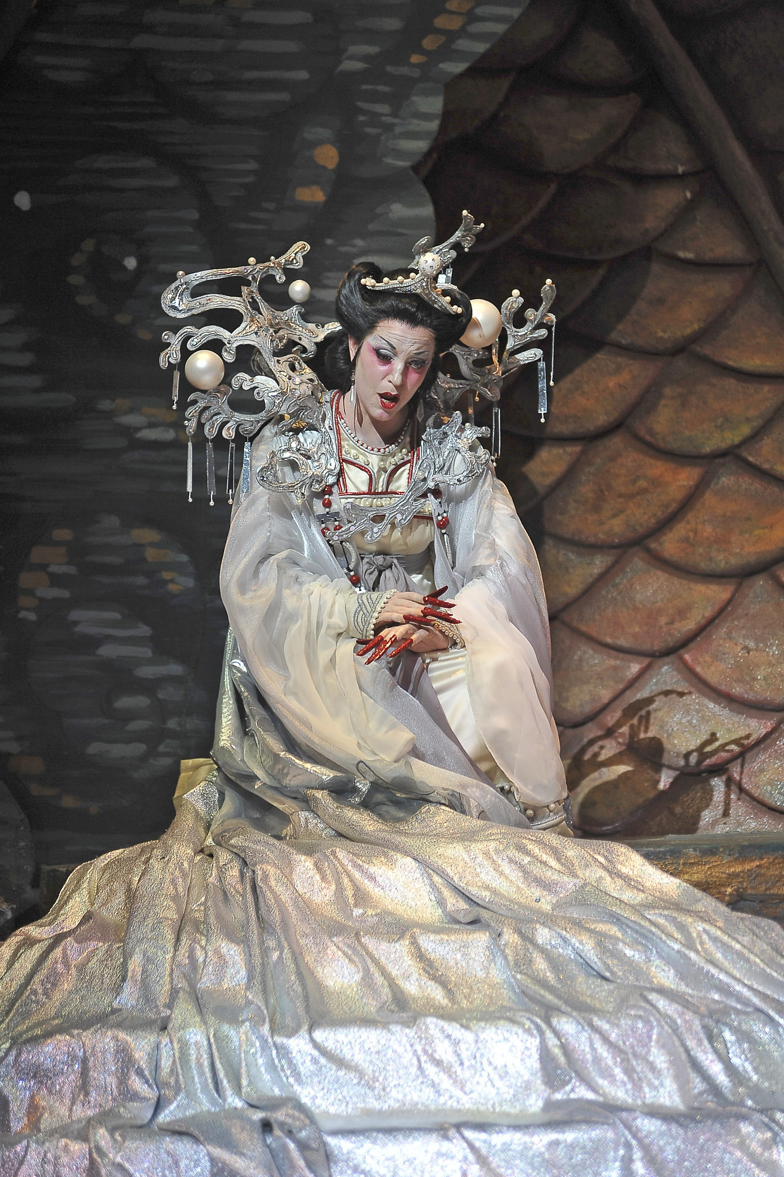 Lise Lindstrom in FGO Turandot in 2010 Production of Turandot by Giacomo Puccini (Photo: Gaston De Cardenas), part of FGO's Opera Free for All project.